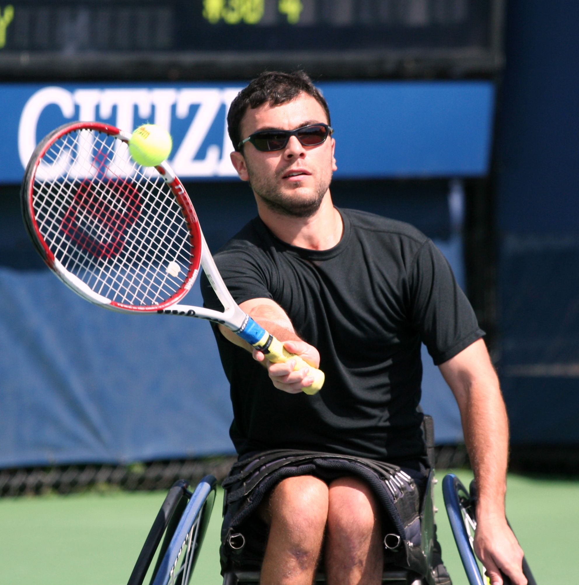 U.S. Open Wheelchair Thursday, Sept. 8, 2011